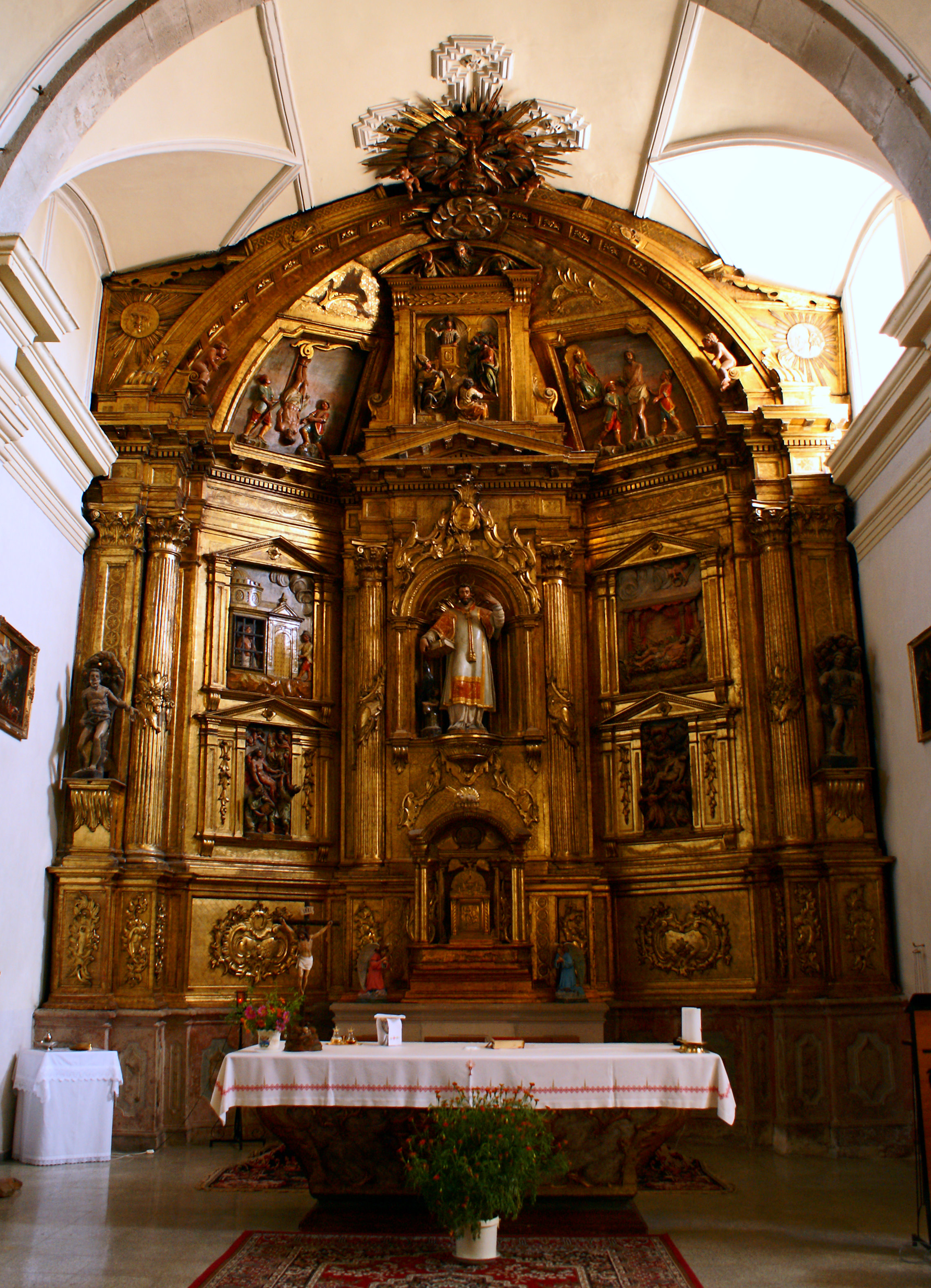 Altarpiece of St. Vincent of Zaragoza's church in Olombrada, Segovia, Spain.